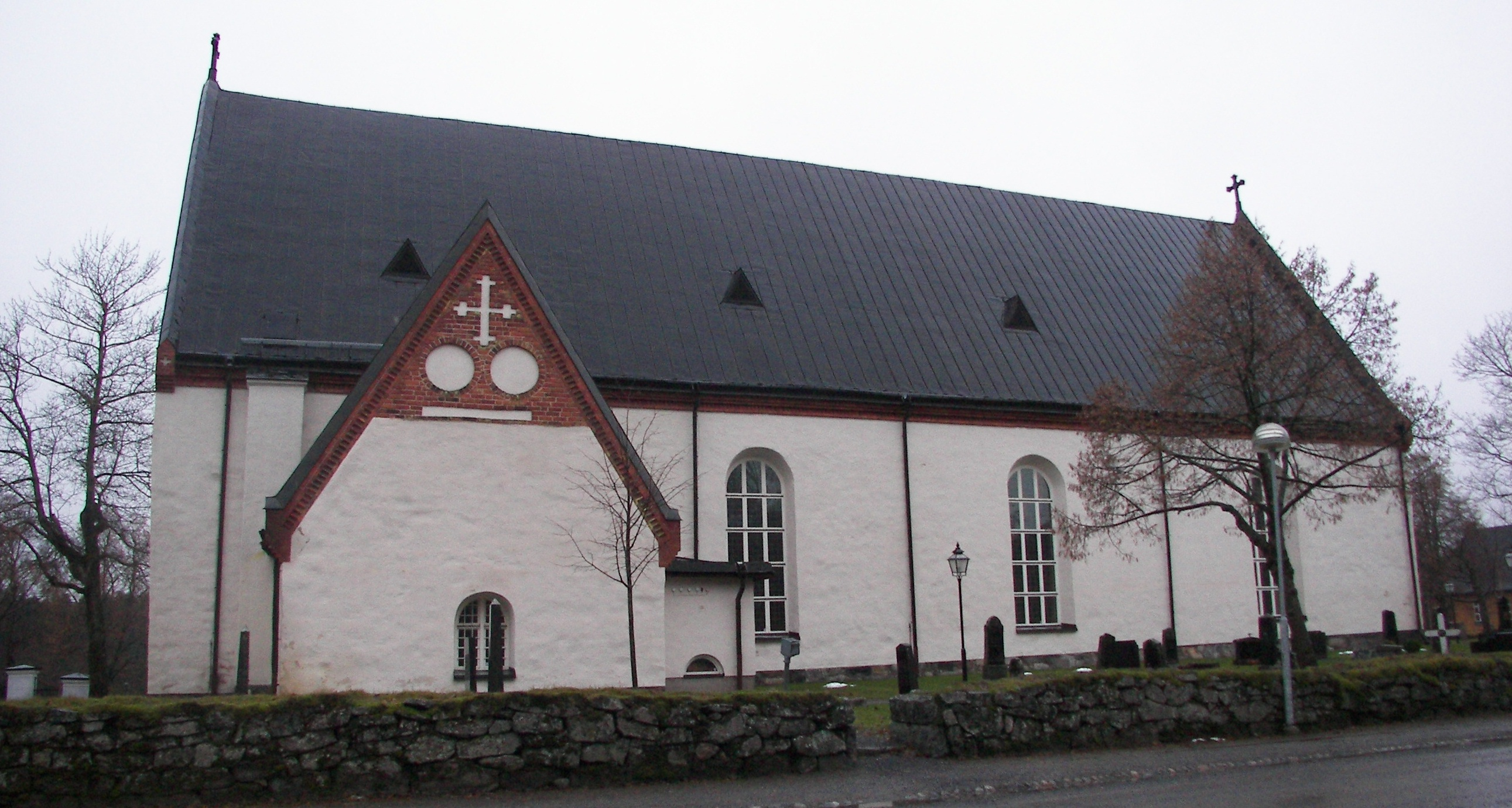 Backen church in Umeå, Sweden